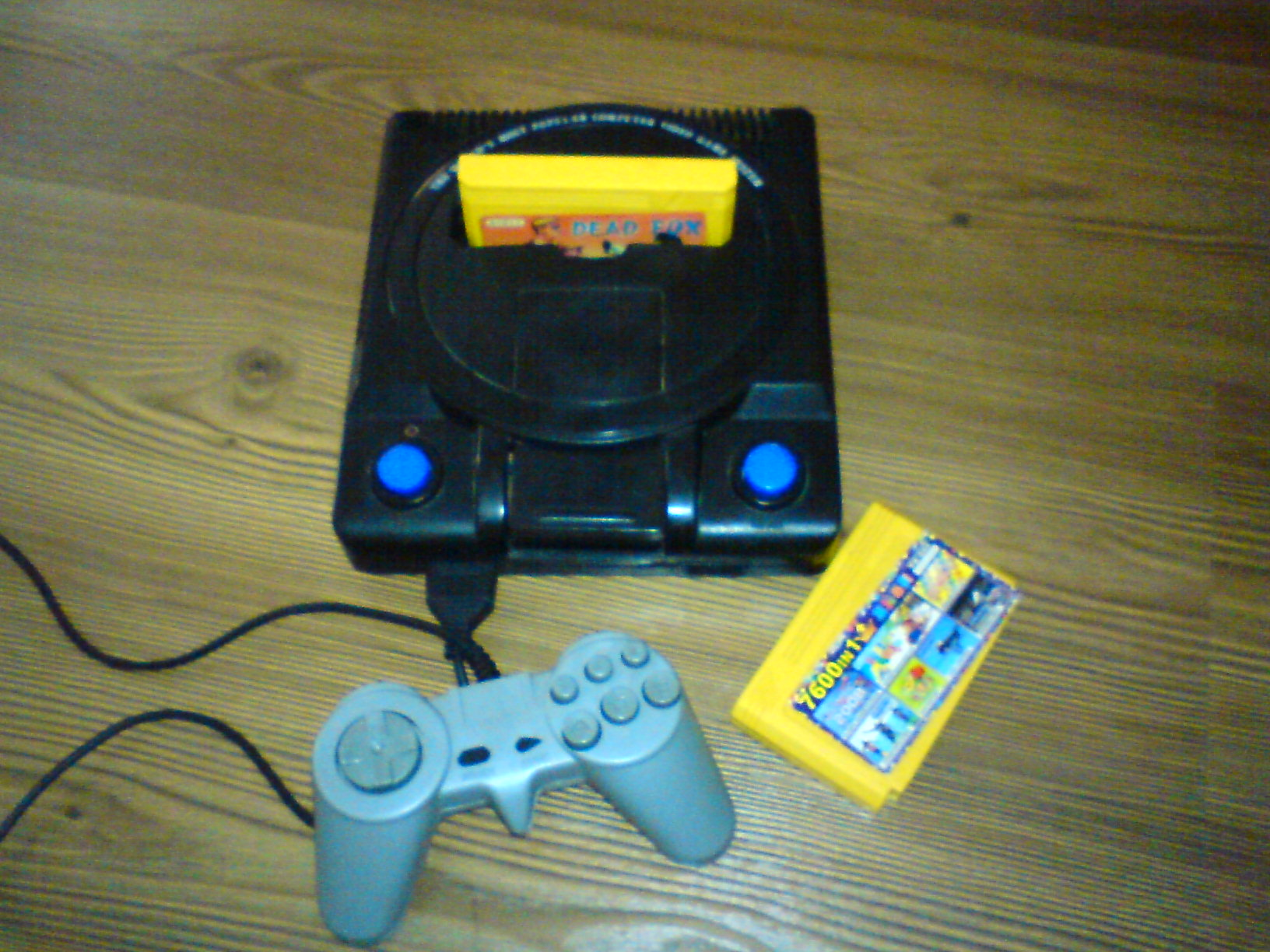 Terminator (video game system)